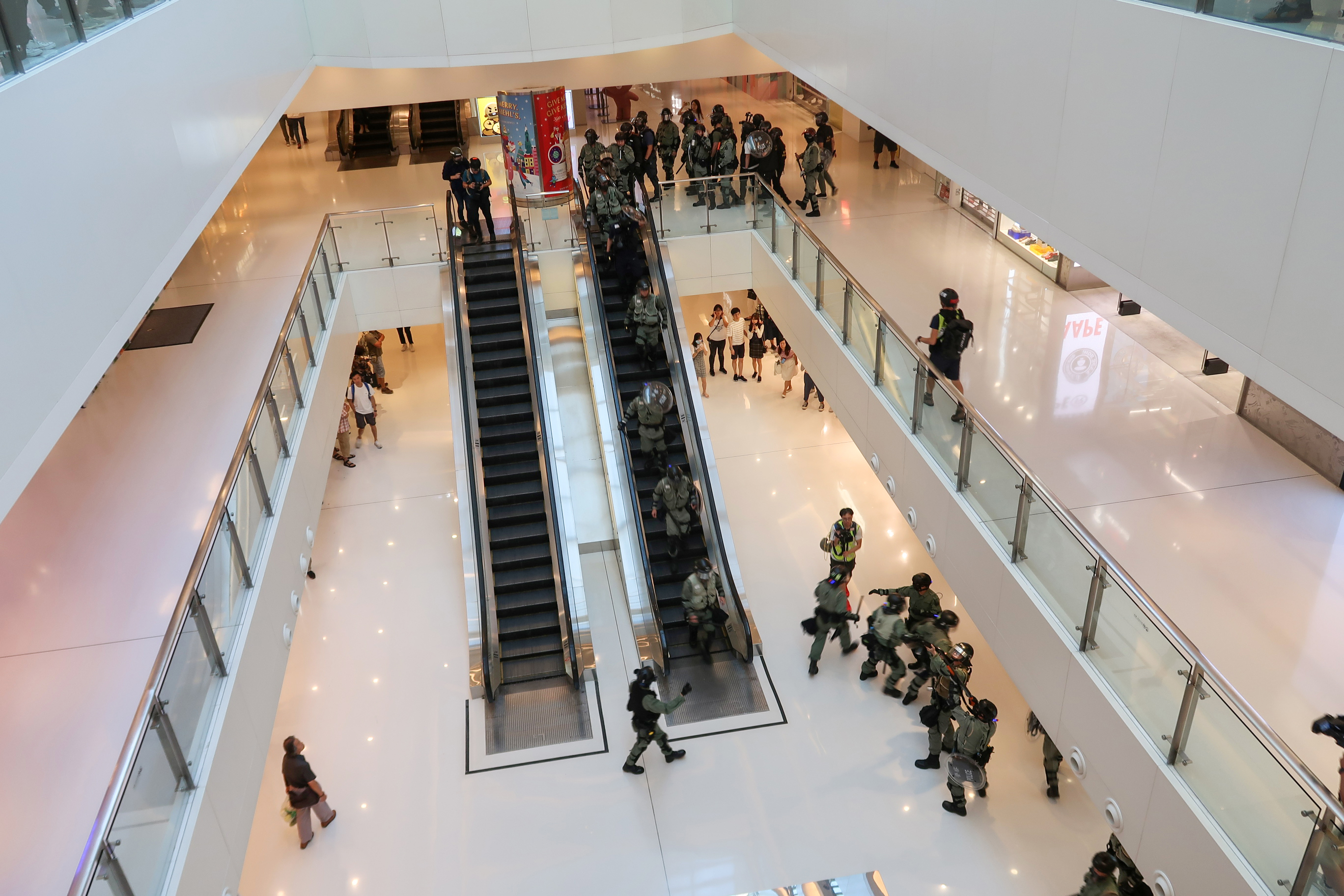 Police force in New Town Plaza Level 4